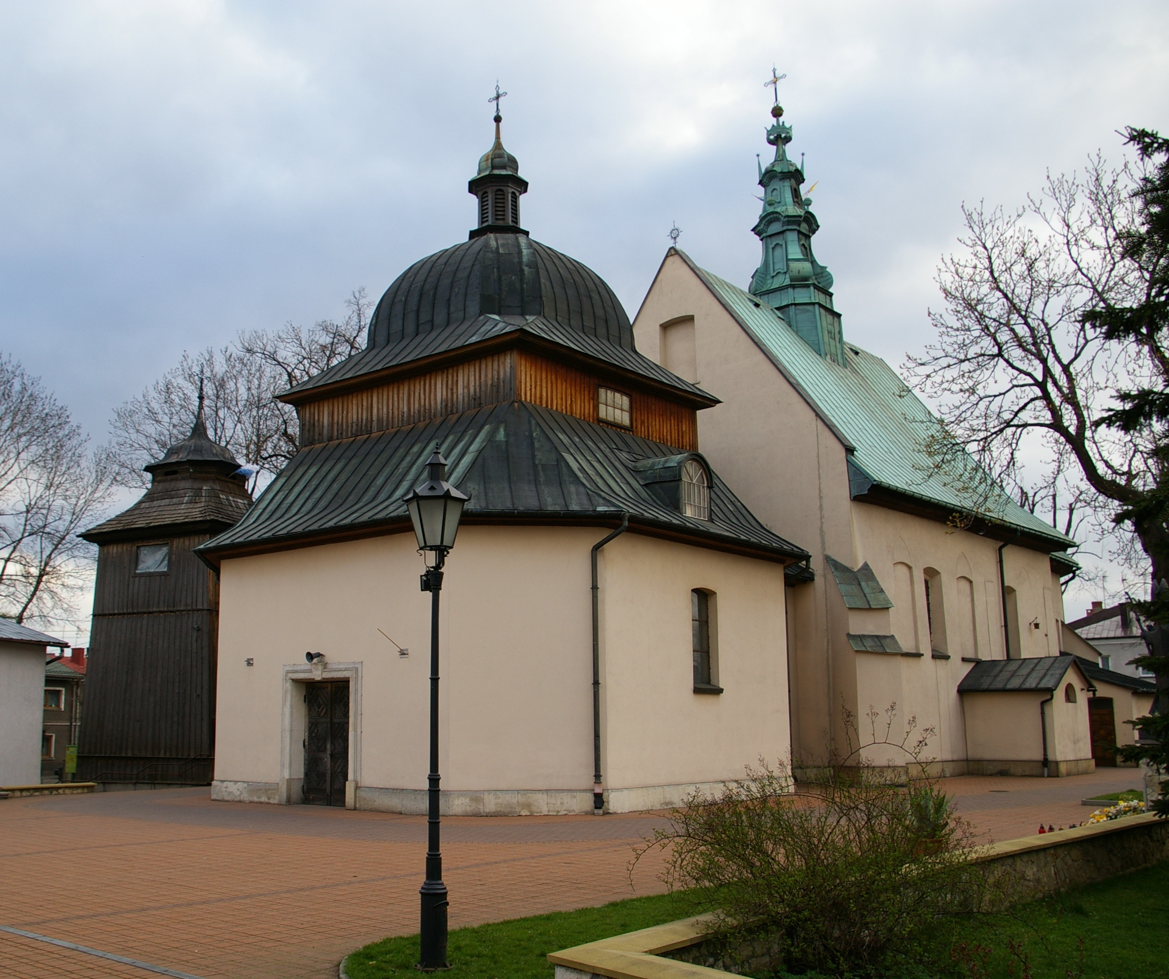 Parish church in Skała, Poland